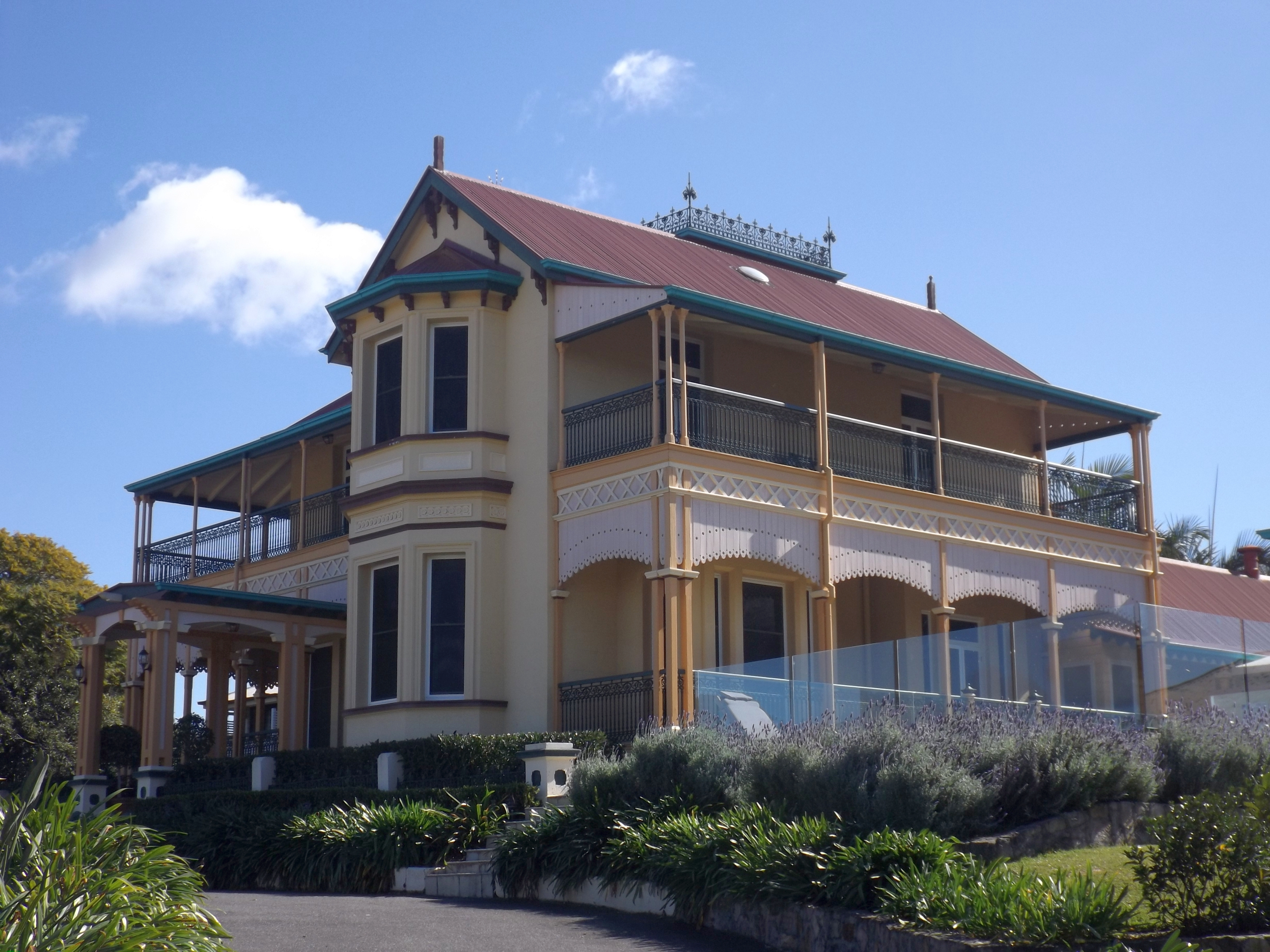 Photo of Boothville House at Windsor, Brisbane, Queensland, Australia.